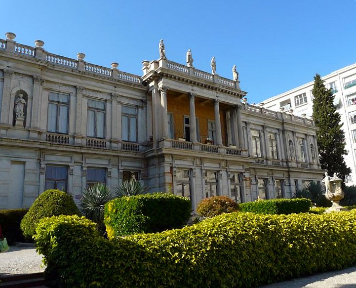 View of Palais de Marbre, in Nice, France.